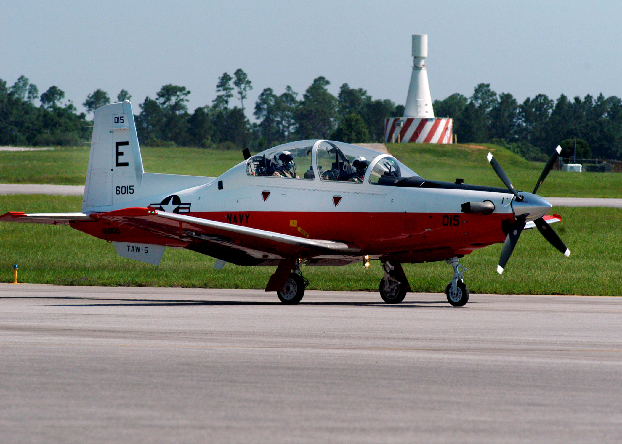 WHITING FIELD, Fla. (May 18, 2010) Ensign Christopher Farkas taxis a new T-6B Texan II. Farkas was the first student to train in the T-6B. Training Air Wing (TW) 5 at Naval Air Station Whiting Field is anticipating a complete transition from the T-34C Turbomentor by 2015. (U.S. Navy photo)